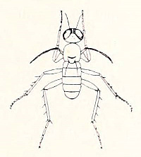 Koolau-Spornflügel-Langbeinfliege (Campsicnemus mirabilis) Darstellung aus: 'Fauna Hawaiiensis; being the land-fauna of the Hawaiian islands. by various authors, 1899-1913. Cambridge [Eng.]: The University press, 1913'